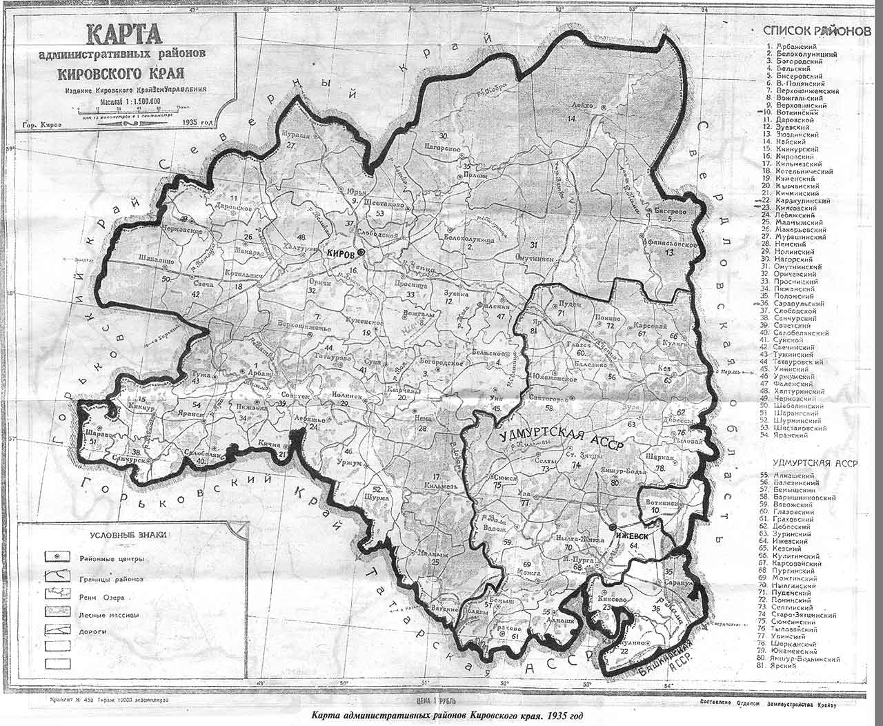 Map of Kirovskiy Kray (1935)